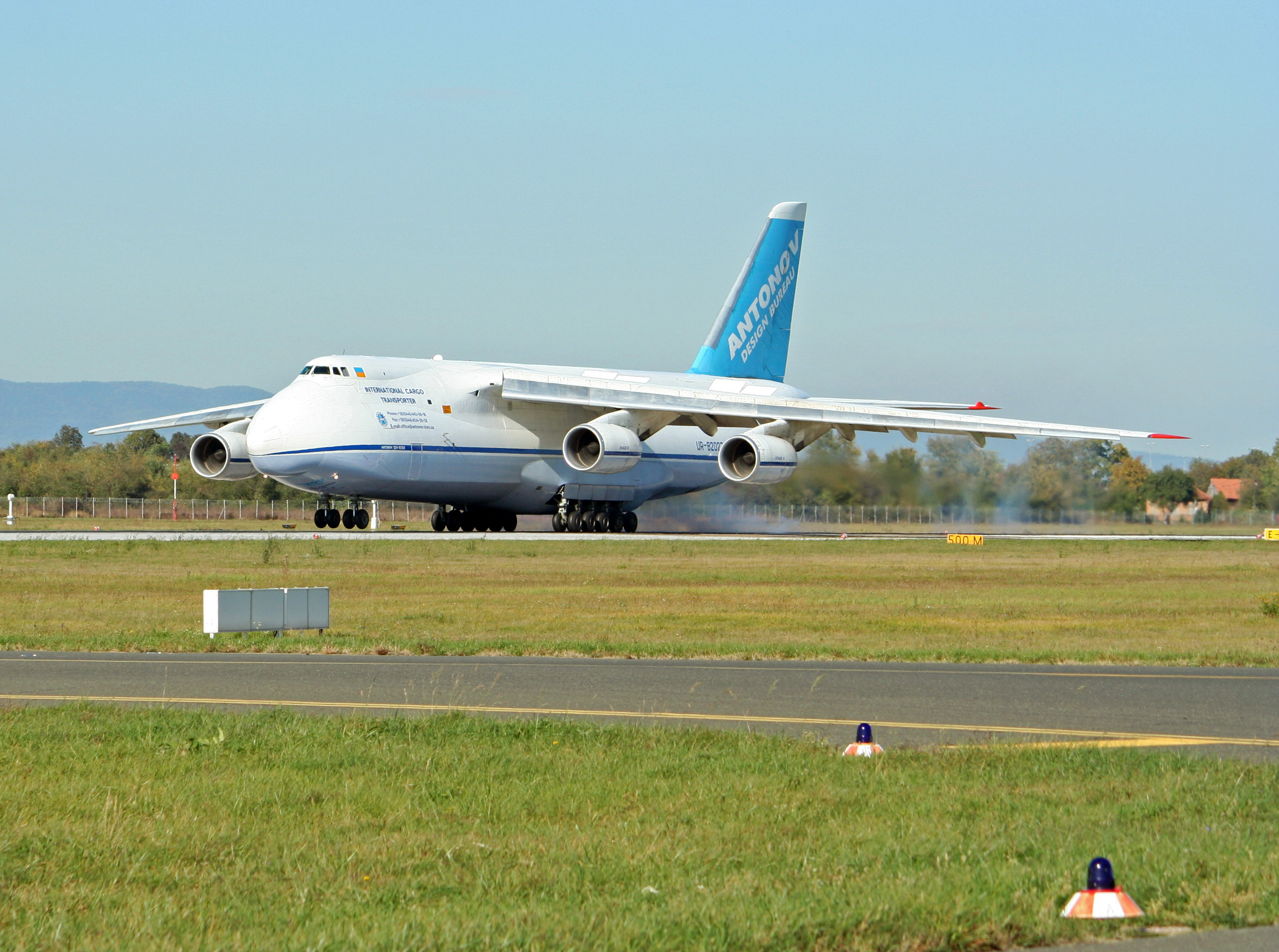 Antonov 124 landing on rwy23 in Zagreb.